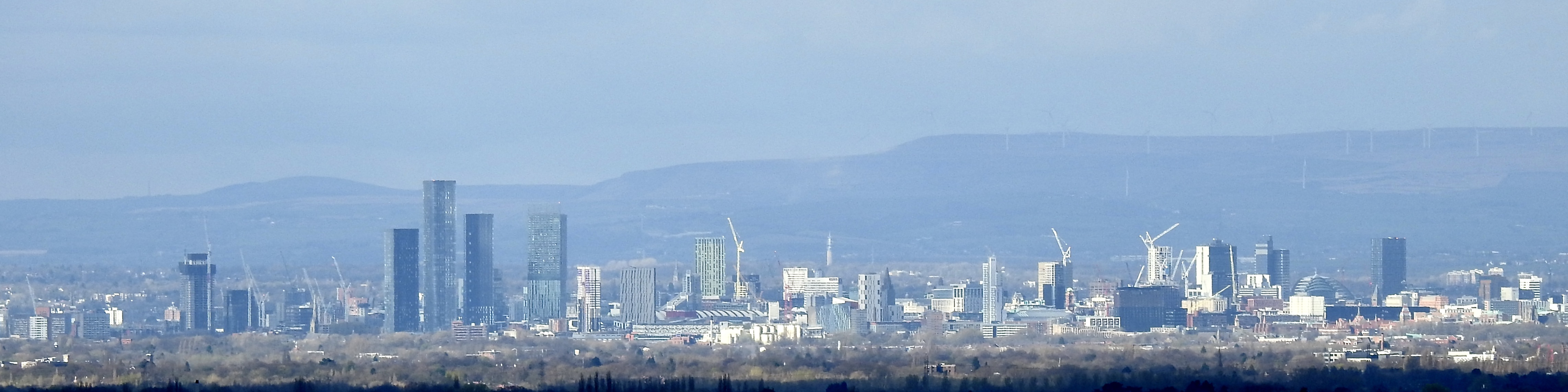 City Centre skyline as of April 2020 taken from Alderley Edge